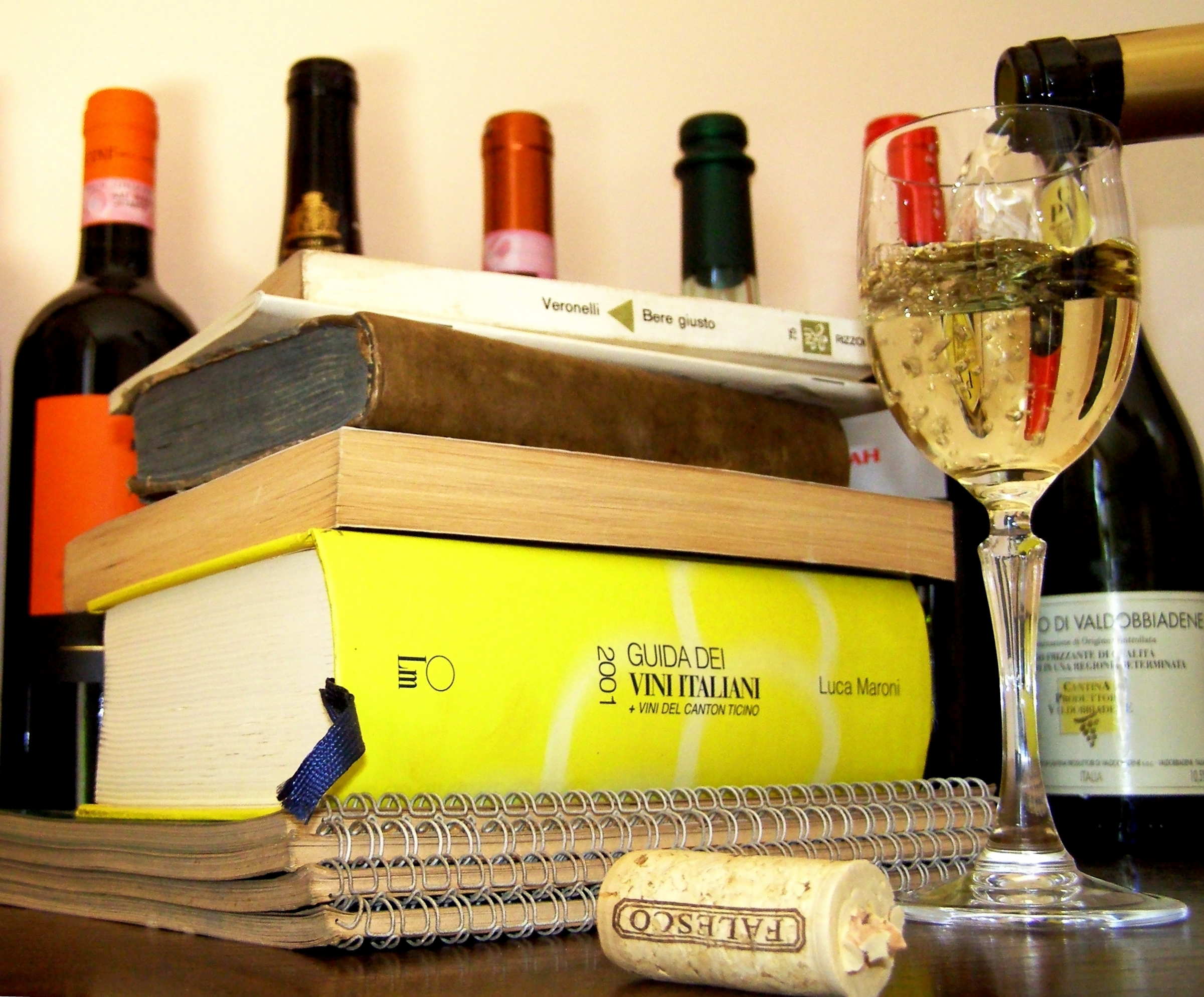 Italy, the country where wine creates culture.